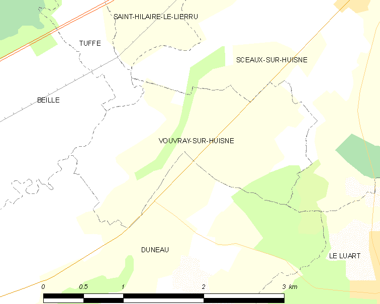 Map of French municipality